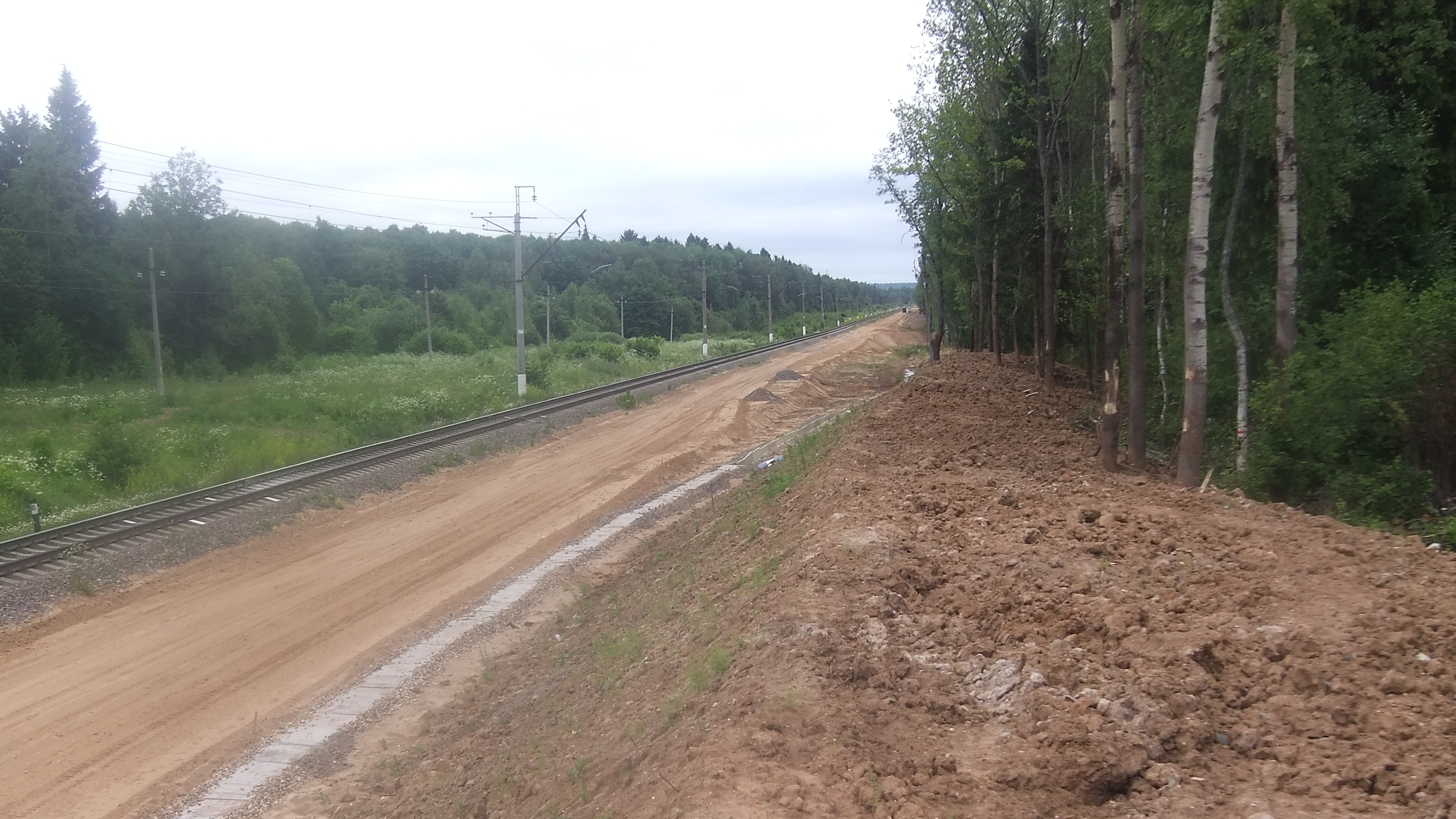 40 km BMO railway platform. Second line construction to the east from platform, view from hill to Naugolniy.